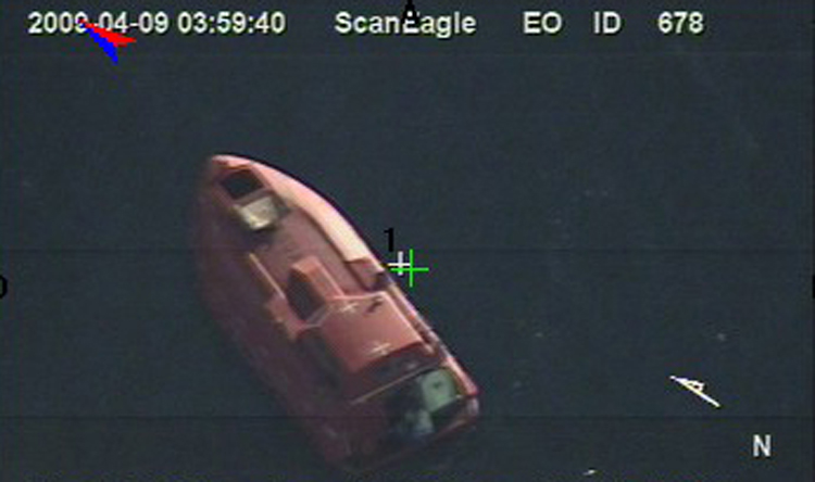 090409-N-0000X-926 INDIAN OCEAN (April 9, 2009) In a still frame from video taken by the Scan Eagle unmanned aerial vehicle, a 28-foot lifeboat from the U.S.-flagged container ship Maersk Alabama is seen in the Indian Ocean. (U.S. Navy Photo)